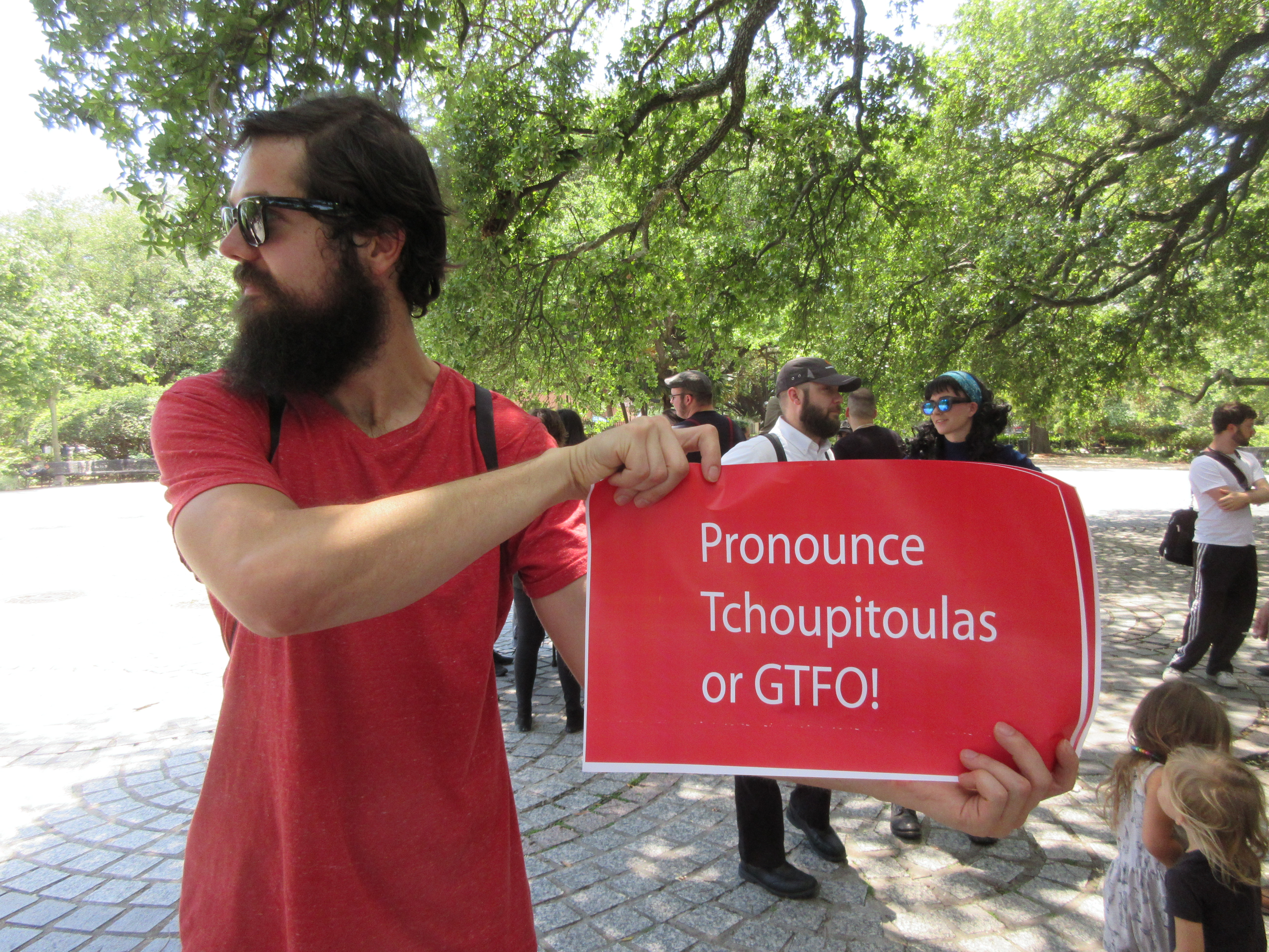 At Congo Square Armstrong Park before the start of the parade. Shibboleth for New Orleanians v/s the out-of-town protestors currently in town for Lost Cause Fest.